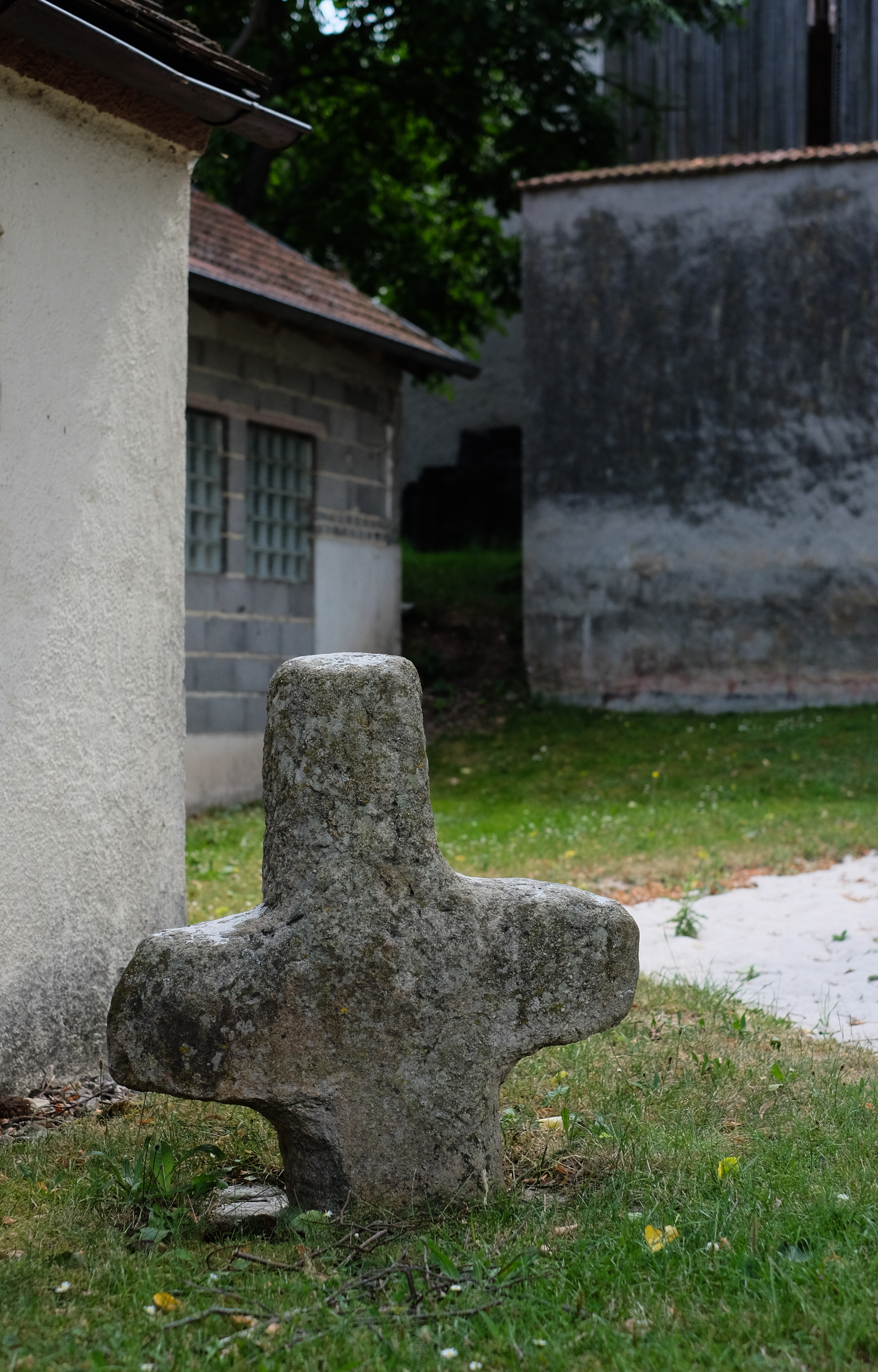 Stone cross Schwedenkreuz, marking soldier's graves, Hirschau-Krickelsdorf district Amberg-Sulzbach, Bavaria, Germany